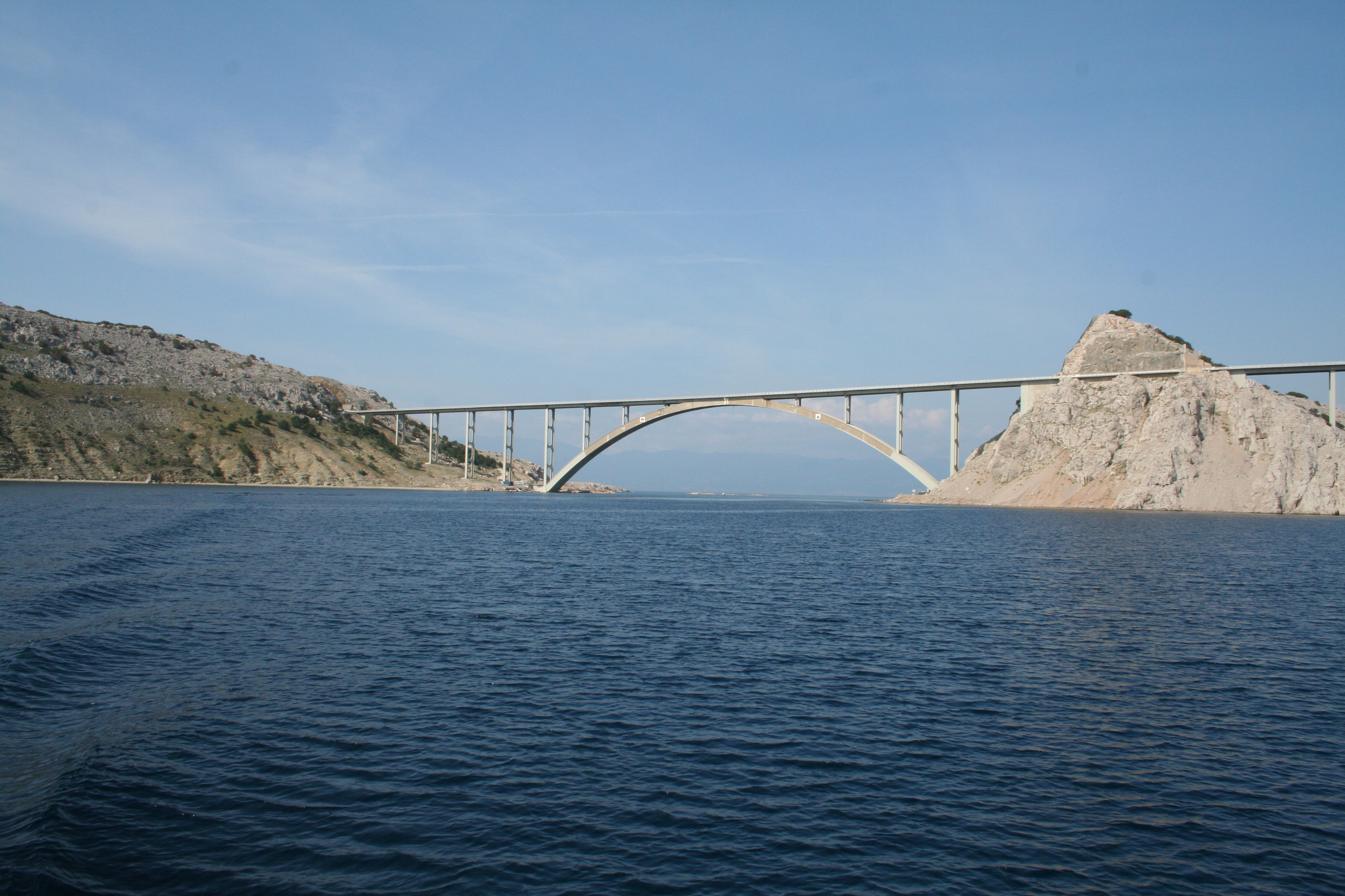 Krk bridge, Croatia